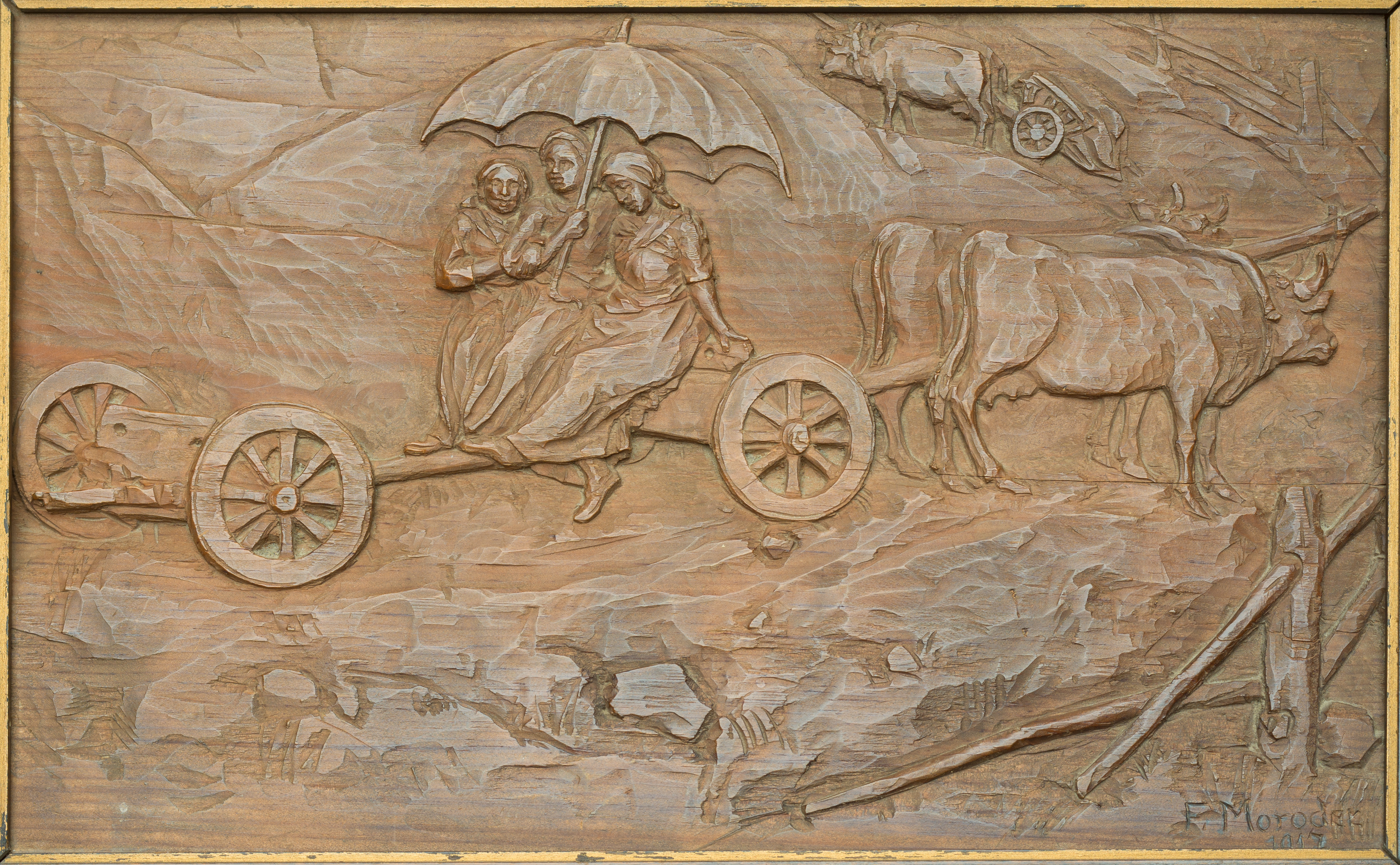 Woodcarved relief by Friedrich Moroder (1880 - 1937) sculptor son of Josef Moroder Lusenberg.